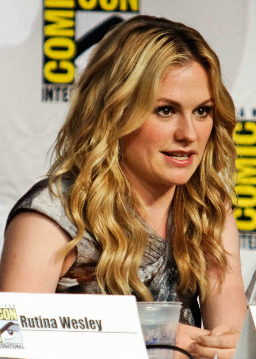 True Blood panel at 2010 Comic-Con International